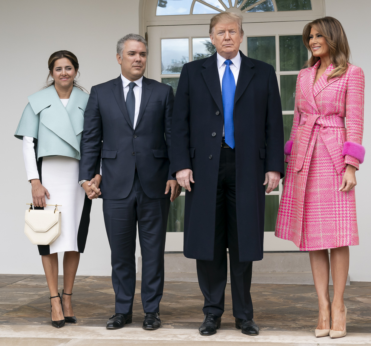 President Donald J. Trump and First Lady Melania Trump pose with Colombian President Iván Duque Márquez and his wife Mrs. Maria Juliana Ruiz Sandoval along the West Wing Colonnade Wednesday, Feb. 13, 2019, at the White House. (Official White House Photo by Andrea Hanks)